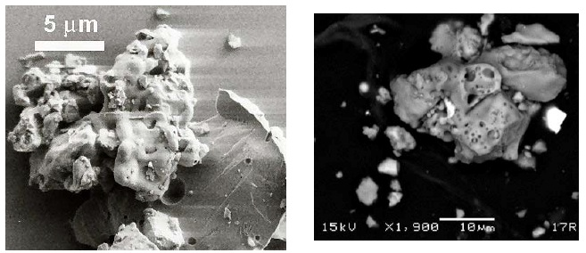 Figure 13-1. Examples of lunar dust grains. – LEFT: Scanning electron microscope (SEM) image of a typical lunar agglutinate. Note the sharp edges, reentrant surfaces, and microcraters. Smaller grains, which are less than 1 μm in diameter, are attached to this particle, and are also seen as loose grains in the upper portion of the image. RIGHT: SEM image of a lunar agglutinate fragment that was removed from the outer surface of Harrison Schmitt’s EVA suit.